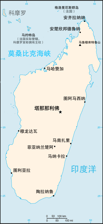 CIA map of Madagascar with Simplified Chinese captions